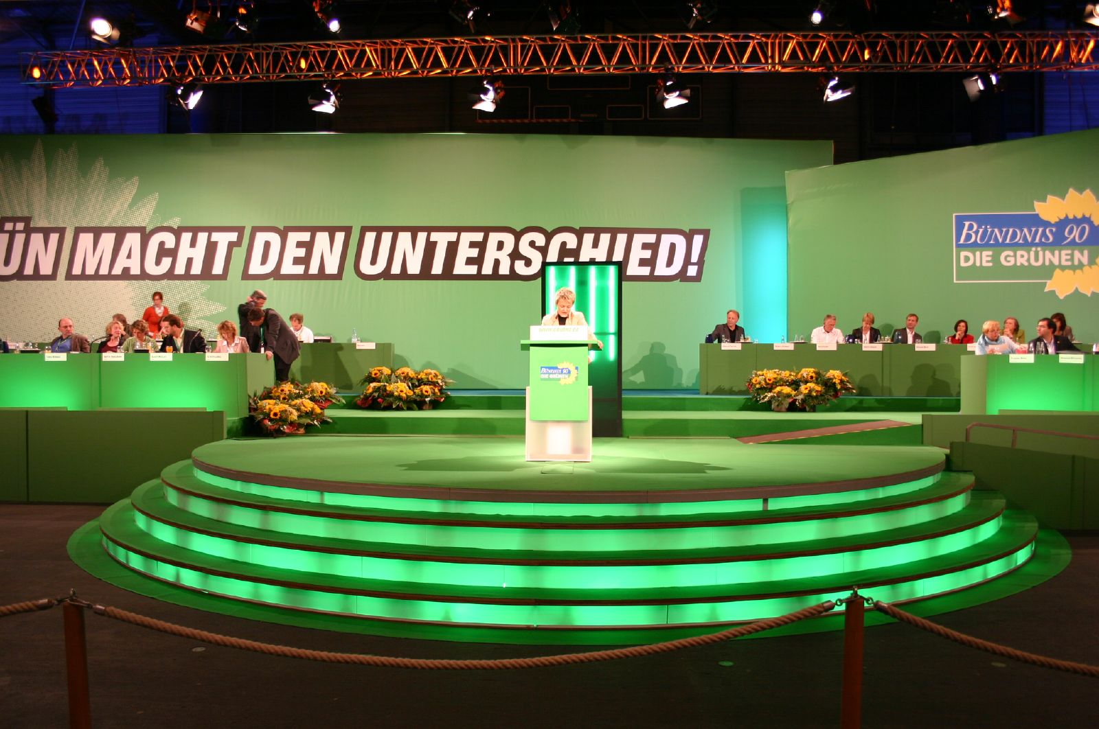 Photo by Till Westermayer, taken at the 2005 Alliance 90/The Greens party convention in Oldenburg, Germany. The picture shows Renate Künast speaking and various important members of the Greens seated at the stage.